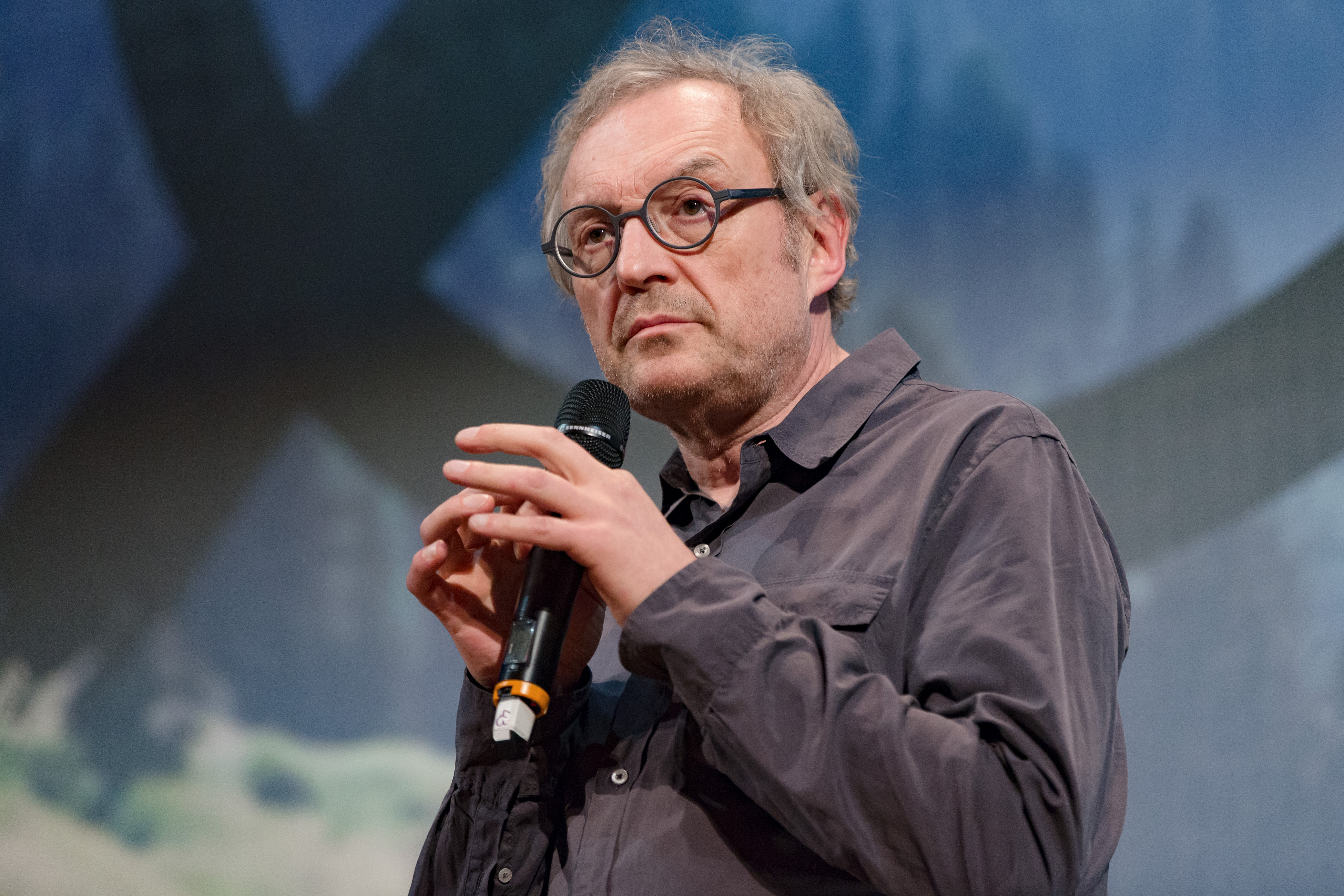 Josef Hader at "Stimmen für Van der Bellen" ("Voices for Van der Bellen"), an event by artists supporting him at the Austrian presidential election 2016 (Konzerthaus, Vienna, Austria).